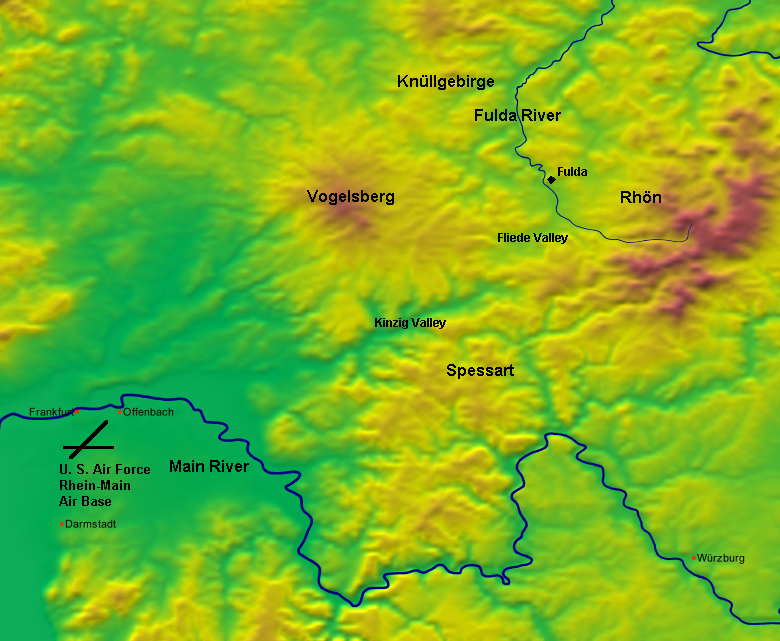 Map featuring Fulda Gap terrain